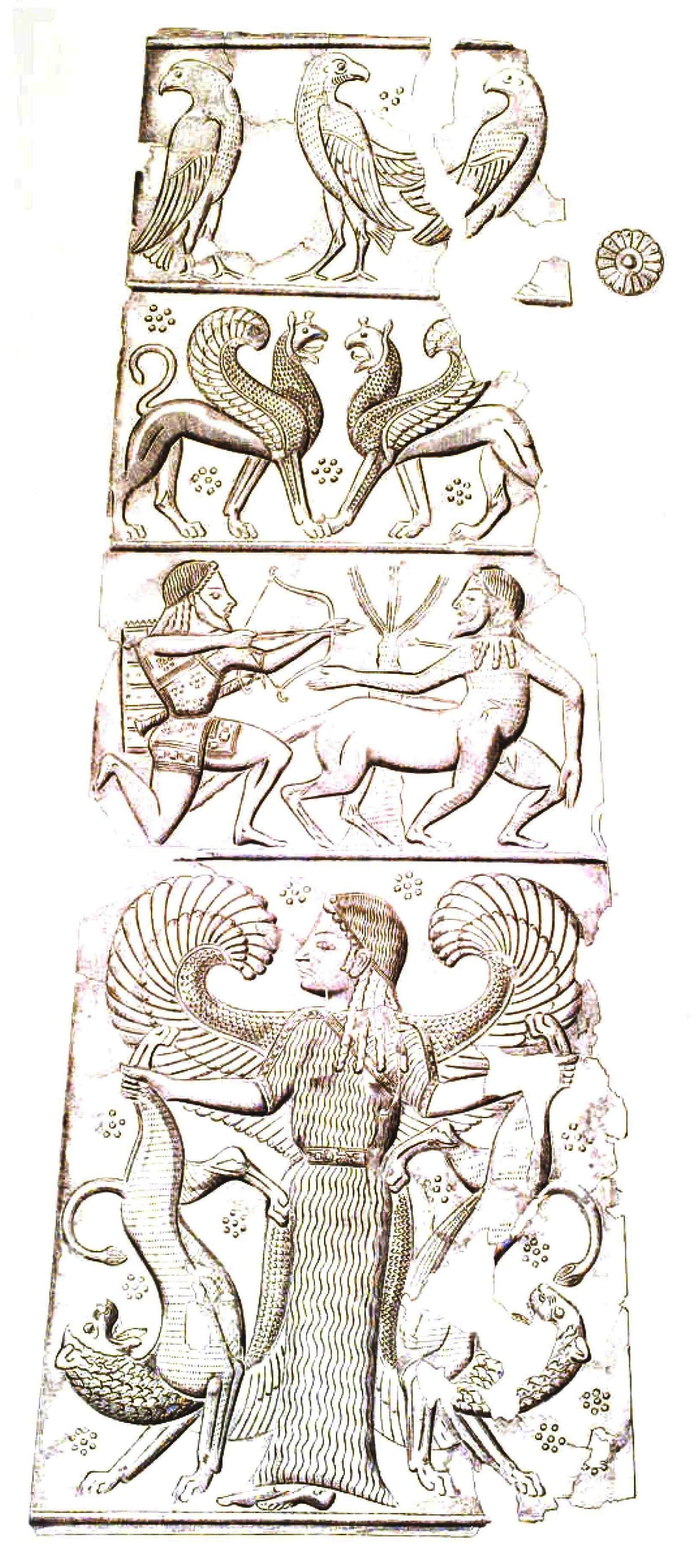 Bronze sheet with embossed representations in four panels. From top: a. eagles, b. confronted griffins. c. Herakles shooting his arows at a Centaur during the battle with the Centaurs on Mt Pholoe, in accordance with the myth. d. Mistress of animals. The sheet was probably a decorative cover of an object. Possibly work of a Samian workshop. About 600 BC.